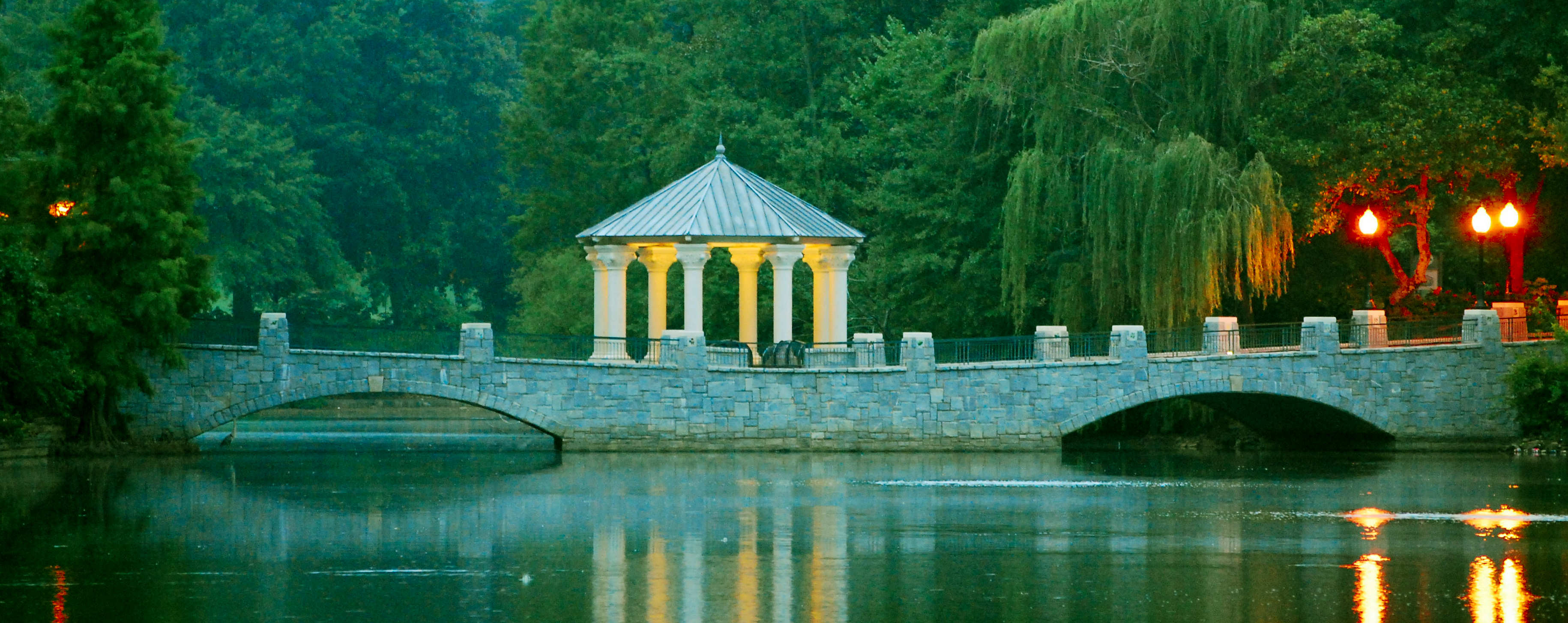 Walk over bridge crossing Lake Clara Meer in Piedmont Park, Atlanta, GA. POV is a drain cover at the north end of the lake. Taken July 27, 2008, @ 6:41am with a Nikon D60, 50-200mm VR at 105mm. Edited and enhanced in Paint Shop Pro Studio.